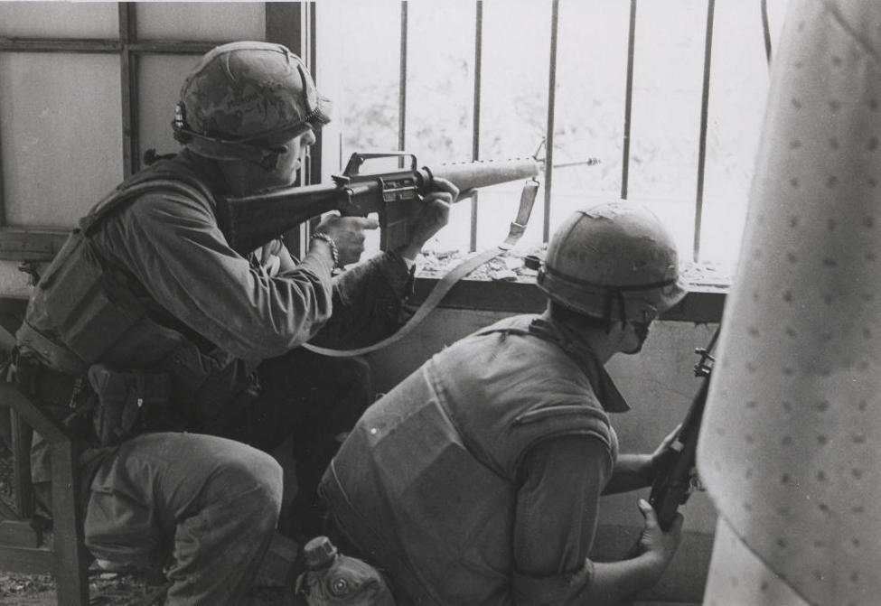 "Returning Fire: Marines A Company, 1st Battalion, 1st Marines [A/1/1] fire from a house window during a search and clear mission in the battle of Hue (official USMC photo by Sergeant Bruce A. Atwell)." From the Jonathan Abel Collection (COLL/3611), Marine Corps Archives & Special Collections. OFFICIAL USMC PHOTOGRAPH